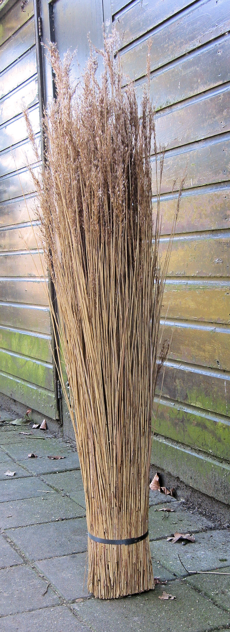 Reed from Kalenberg